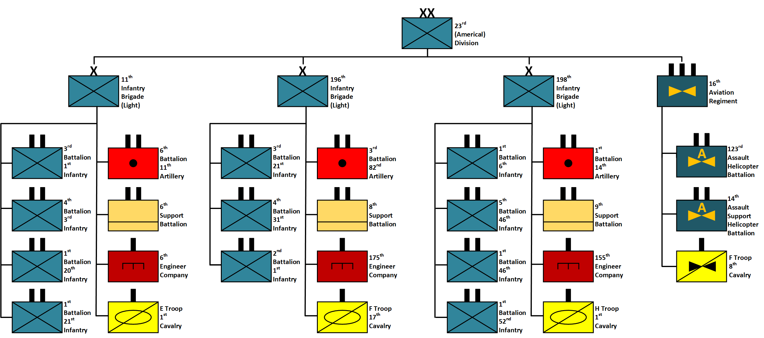 Organization of the United States 23rd (Americal) Infantry Division in Vietnam in 1967